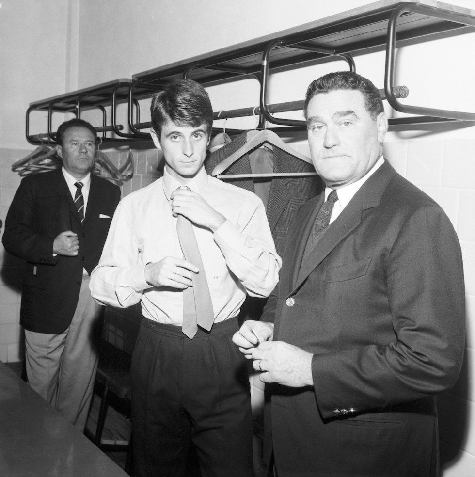 Milan (Italy), San Siro, October 22, 1967. Inter Milan — A.C. Milan 1-1, Italy Championship 1967–68 Serie A. A.C. Milan's footballer Gianni Rivera (center) and coach Nereo Rocco (right) in the dressing room.